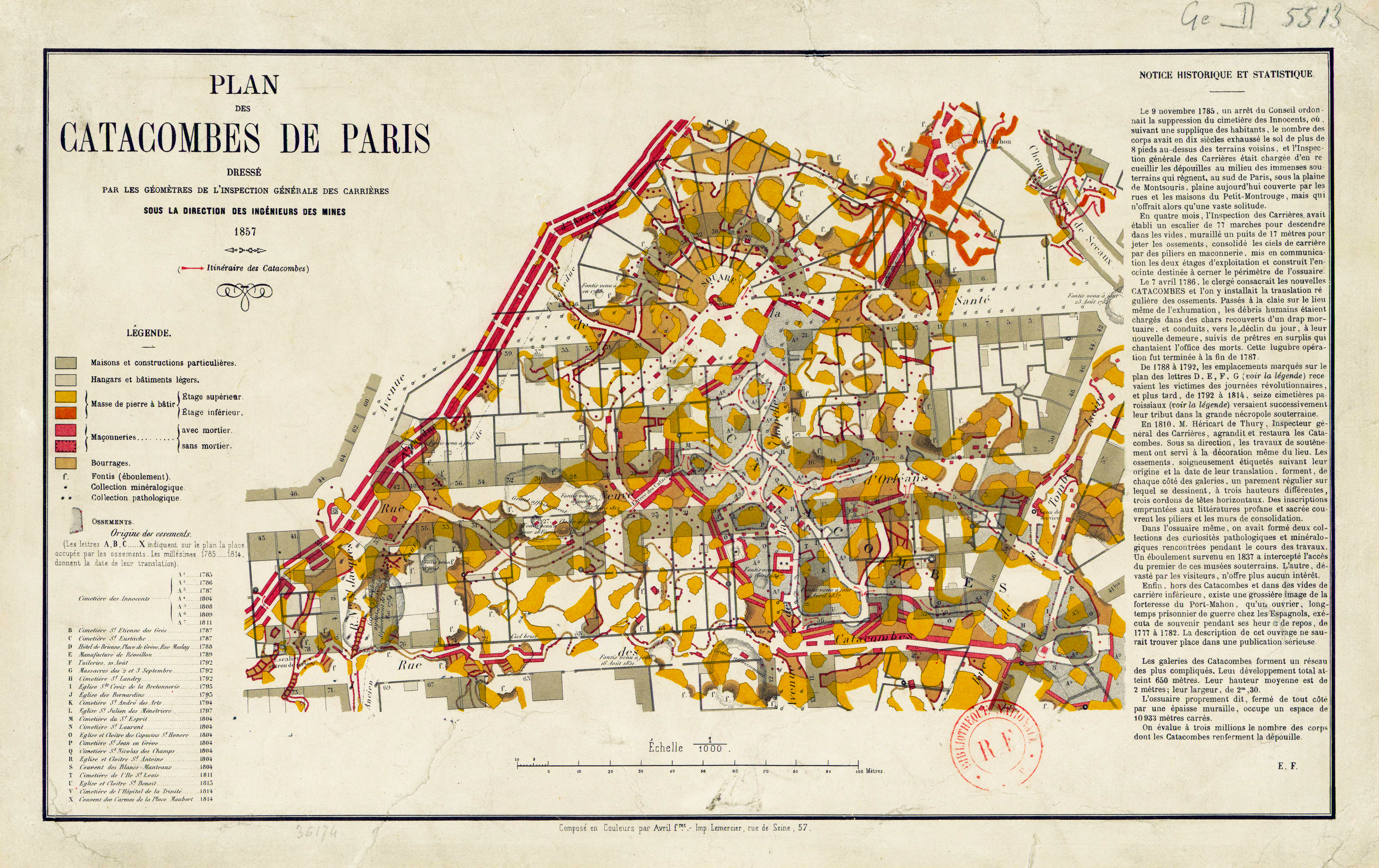 Plan of the Catacombes, drawn by the IGC (Inspection Générale des Carrières) in 1857.